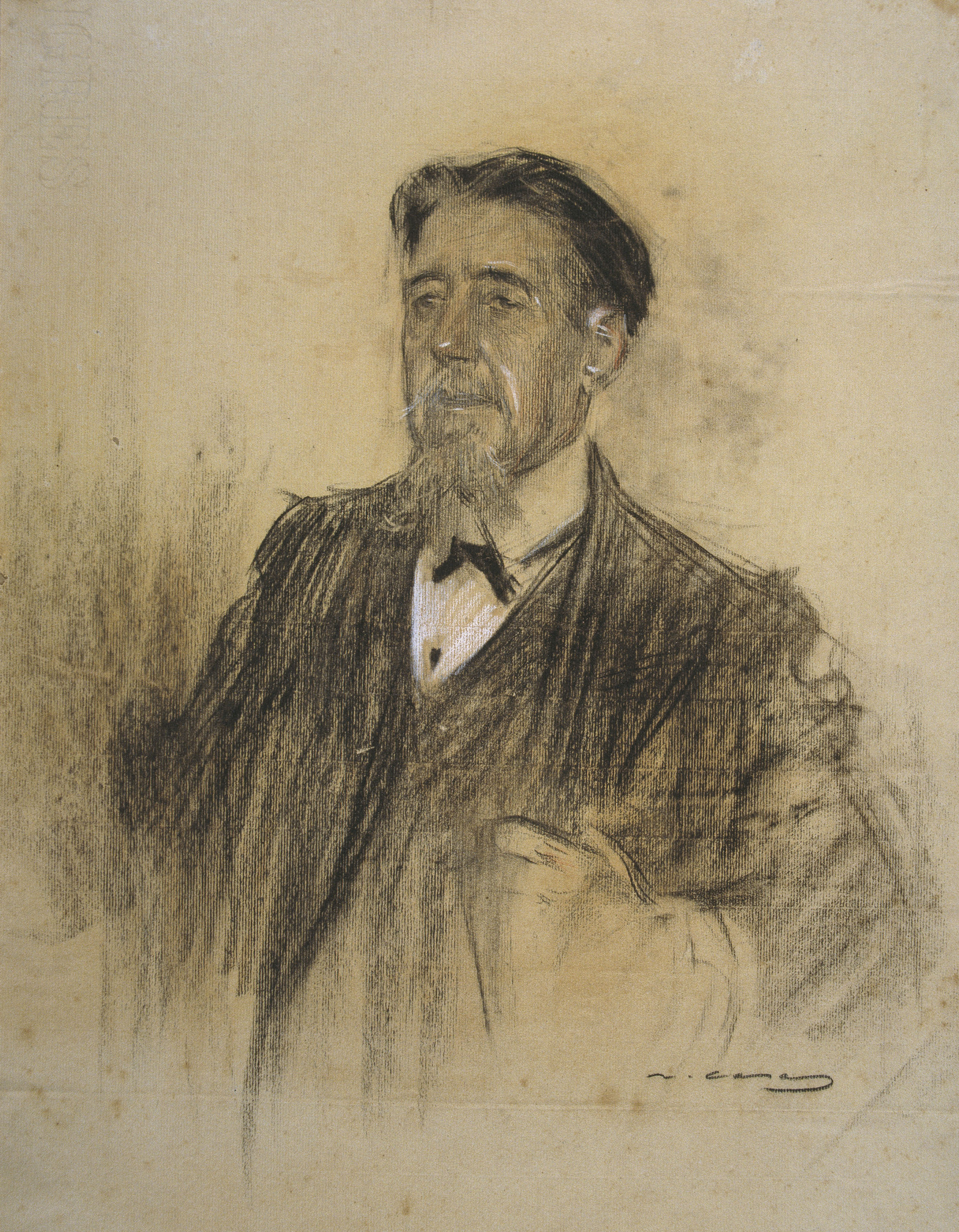 Portrait by Ramon Casas conserved at MNAC in Barcelona. Imagen 090